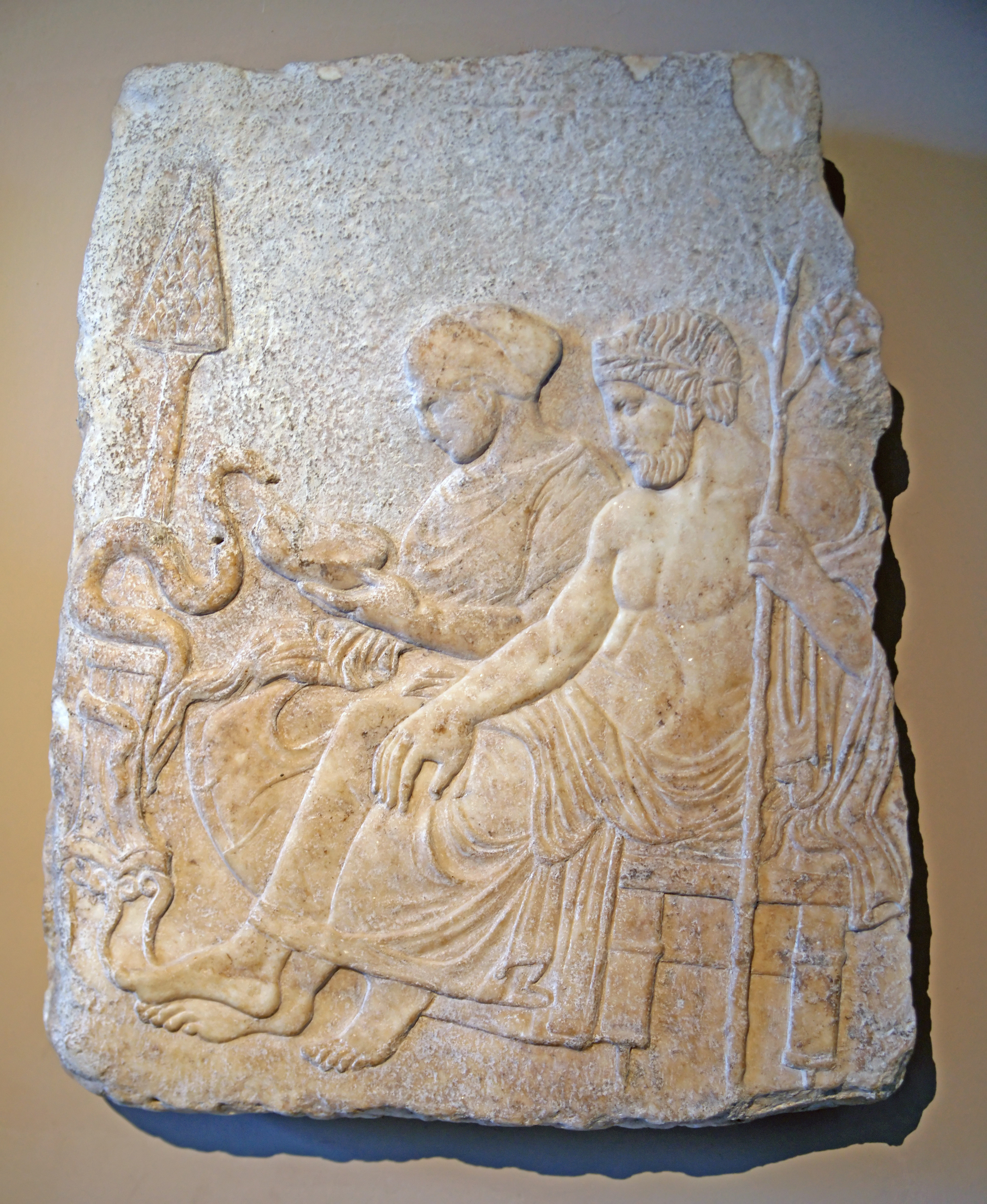 Marble relief of Asclepius and Hygieia. Therme of Salonika, classical period, last quarter of the 5th ct. BC. Istanbul Archaeological Museum inv. no. 109 T (Mendel 91).